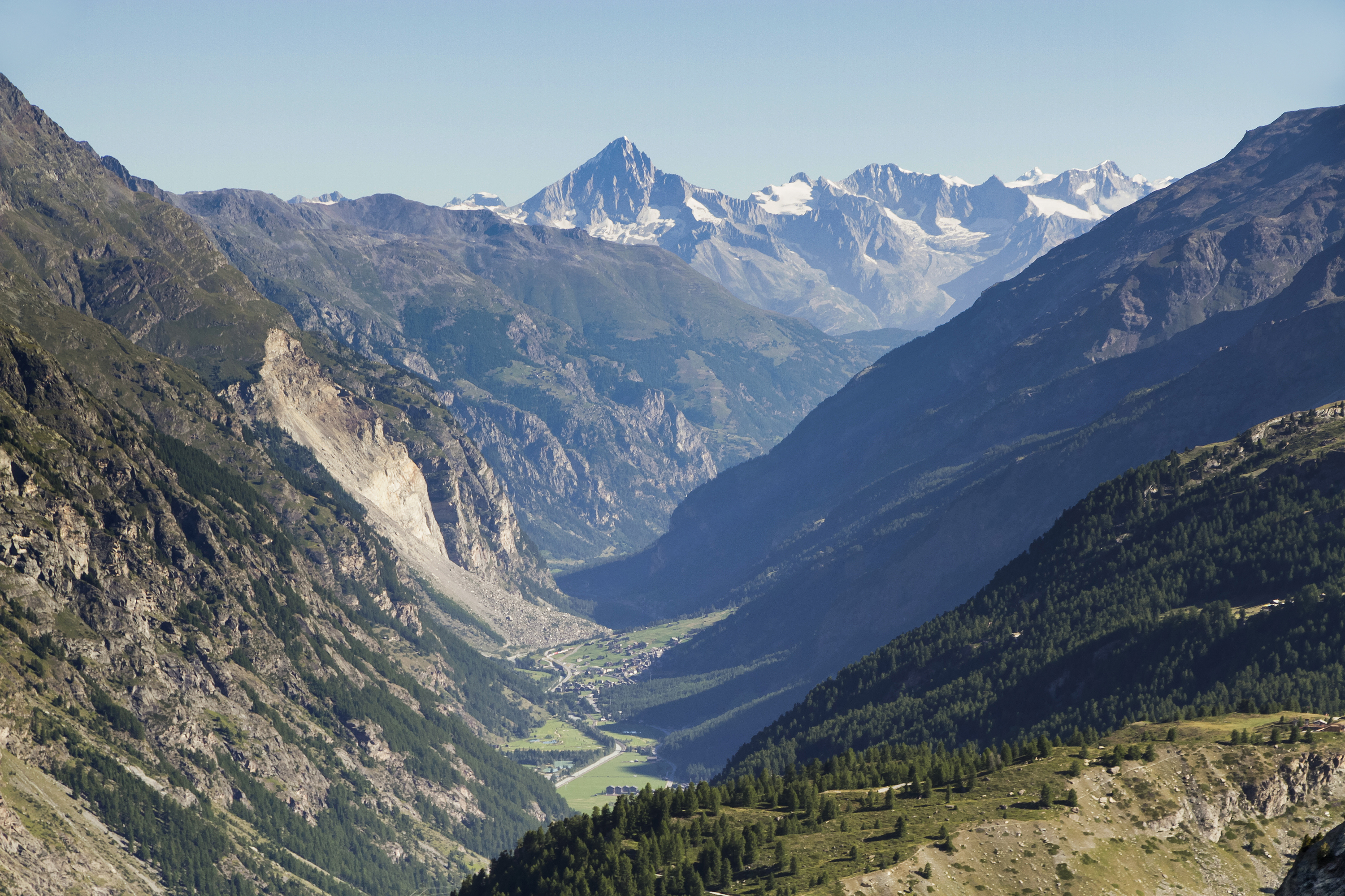 A view to Mattertal towards north from a mountain side between Zermatt and Gornergrat in Wallis, Switzerland in 2012 August. The high summit in the middle is Bietschhorn.